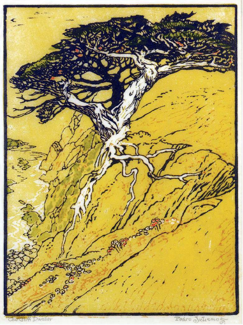 From his book "Applied Art", first published 1920